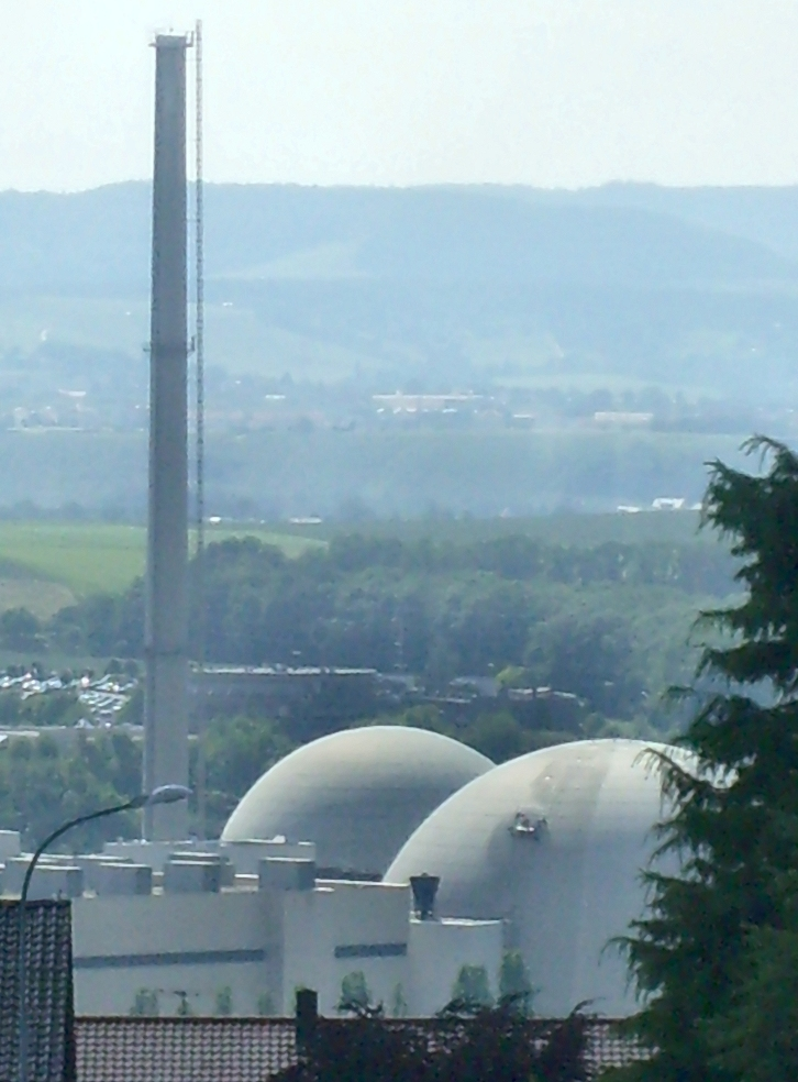 A machine on the reactor Neckarwestheim-2